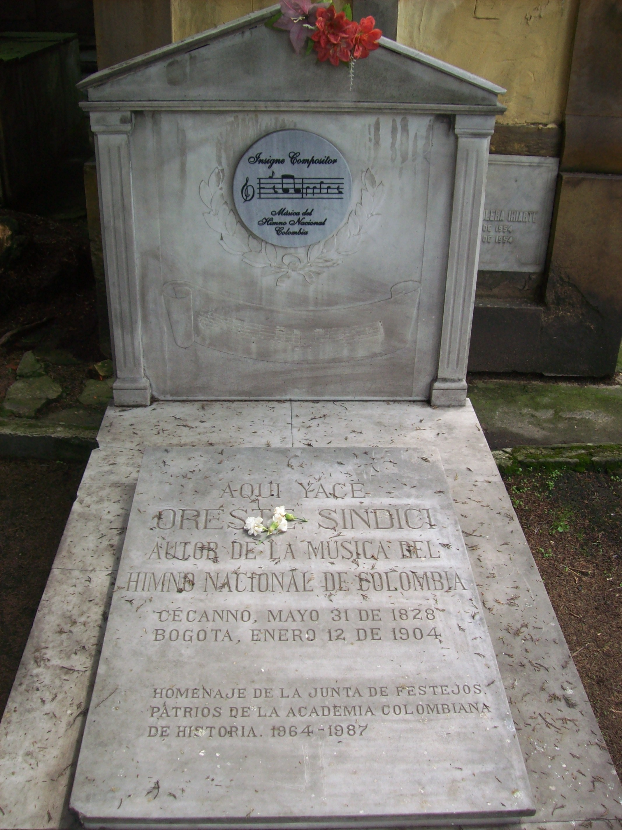 Tomb of Oreste Sindici, composer of the Colombian National Anthem